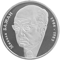 Coin of Ukraine